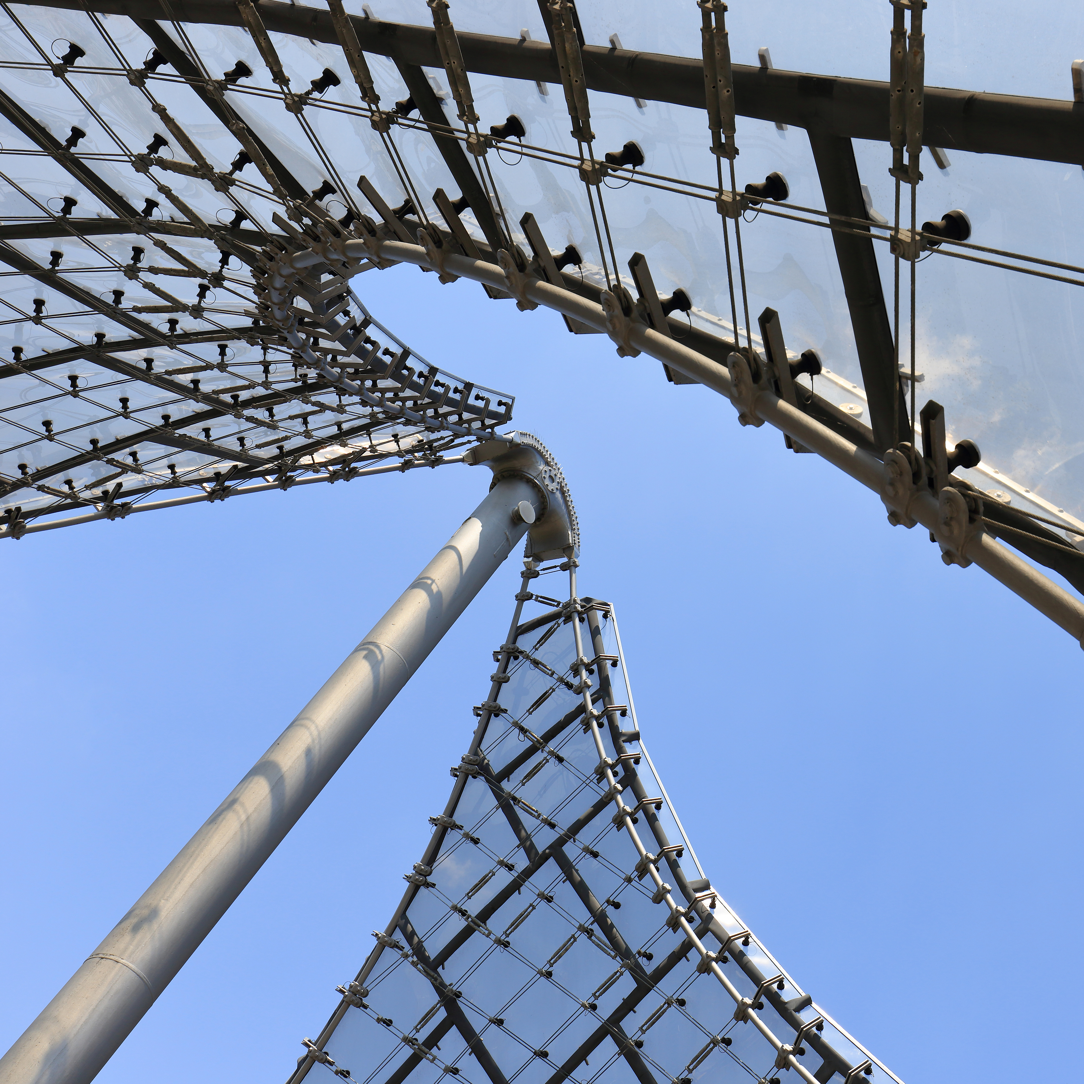 Tensile membrane roof in Olympiapark, Munich - detail.